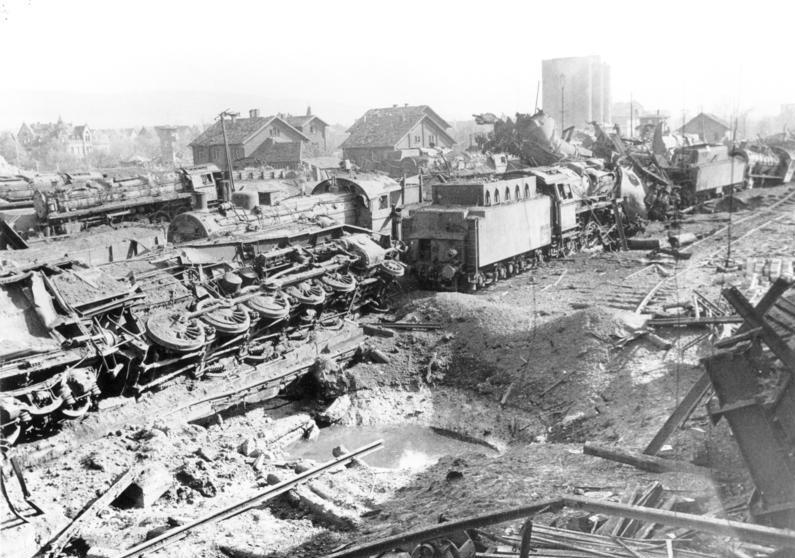 Title: Northeim, Zerstörter Bahnhof Factual corrections and alternative descriptions are encouraged separately from the original description. Additionally errors can be reported at this page to inform the Bundesarchiv. Original historic description: ETO HQ 45 22177 11 April Credit... U.S. Signal Corps Photog... T/3 Jack Kitzerow-165 View of a rail yard at Nordheim, Germany after a 1 hour of bombing by our Air Force on April 8th. Northeim, Germany